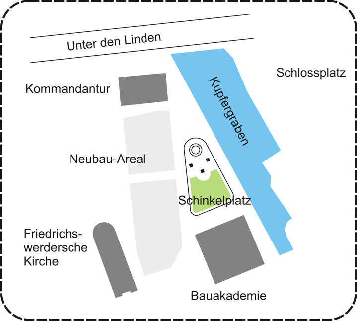 The "Schinkelplatz" in Berlin-Mitte. Schematic map of the surroundings.